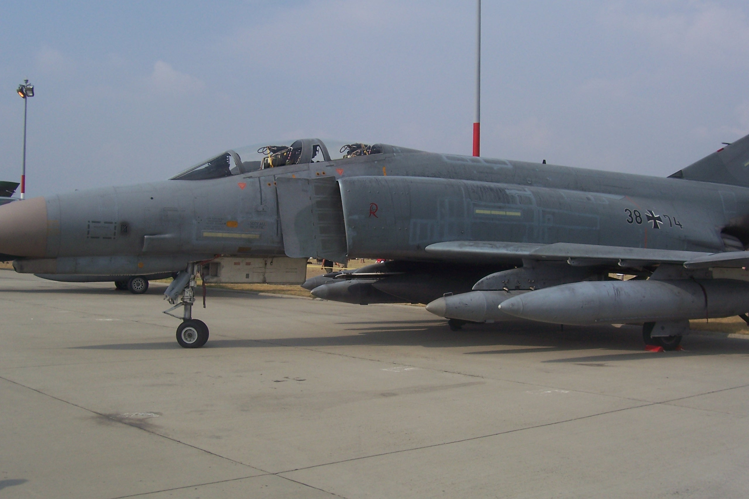 A German McDonnell Douglas F-4F Phantom II (s/n 38+74) from the 71st Fighter Wing "Richthofen" in Hungary.